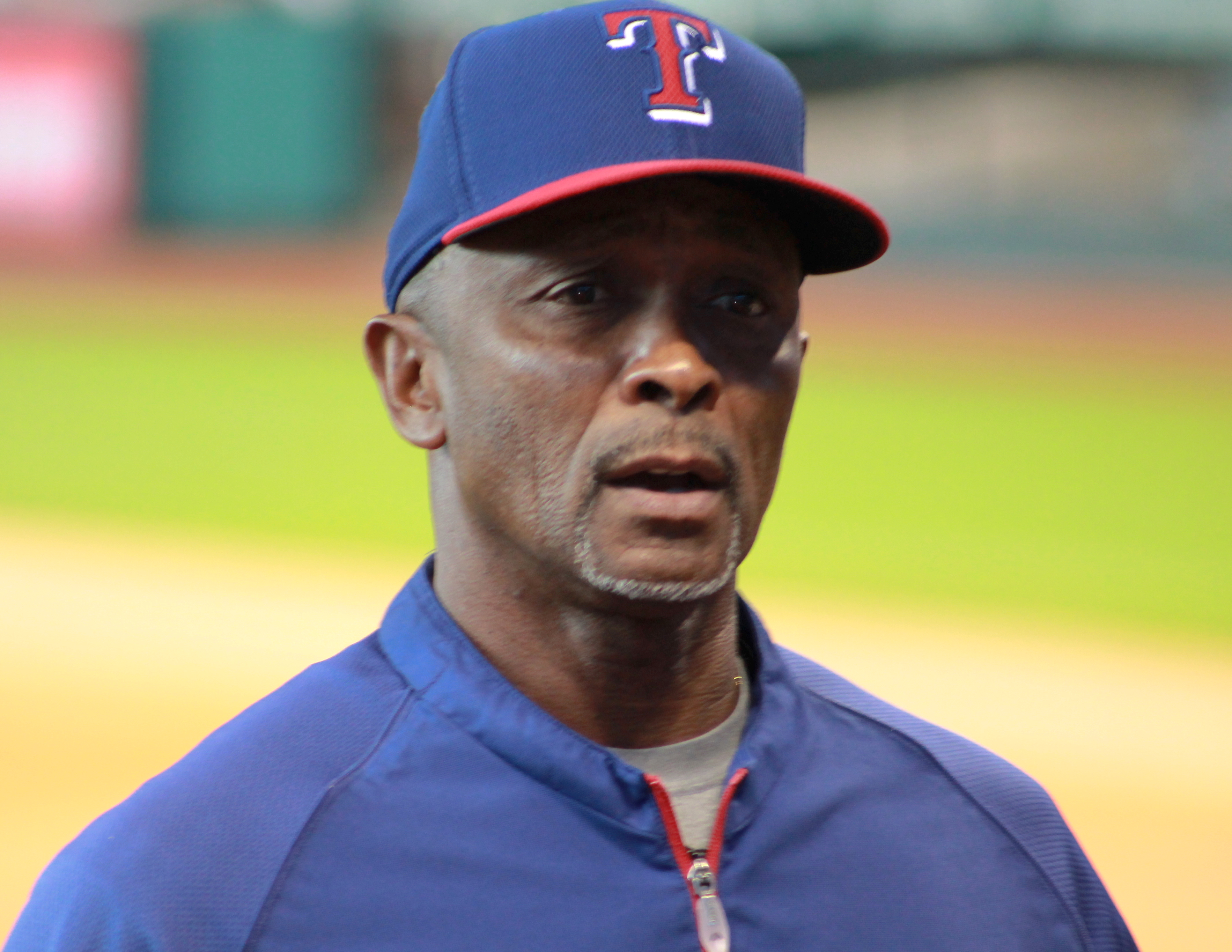 Professional baseball coach Gary Pettis at an August 2014 game in Houston.